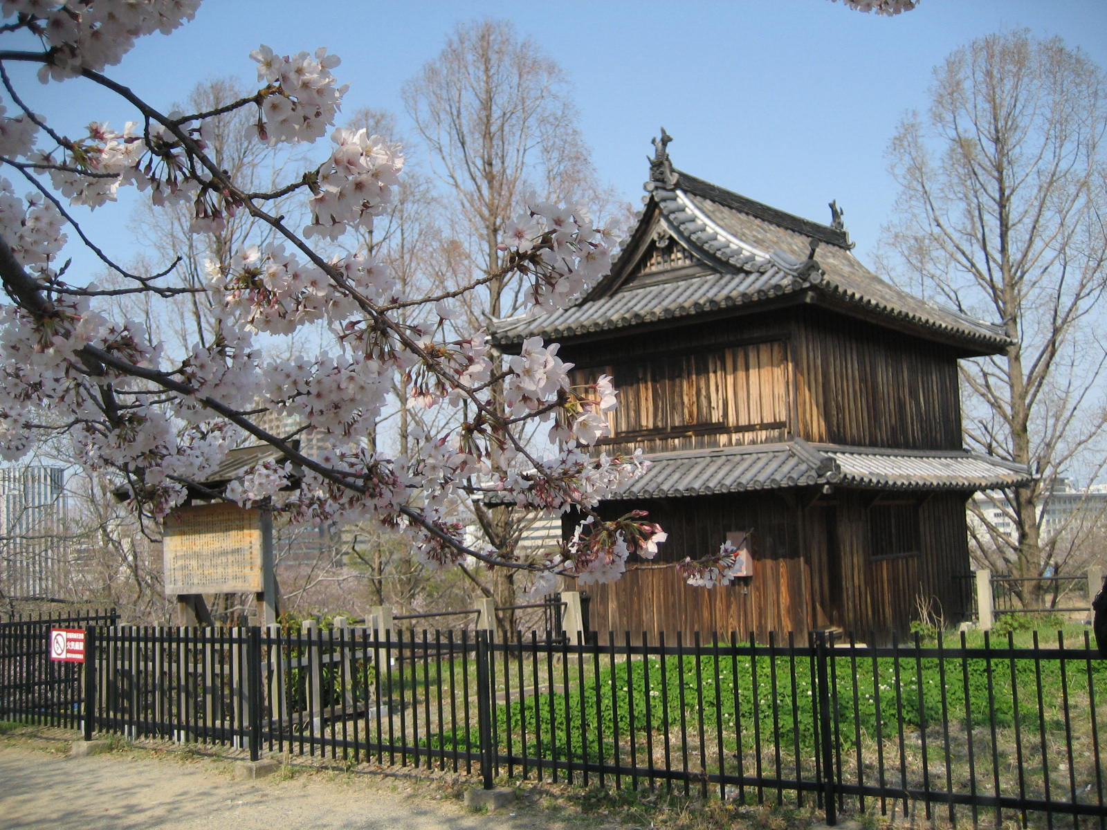 Fukuoka Castle in April where sakura flowers are in bloom